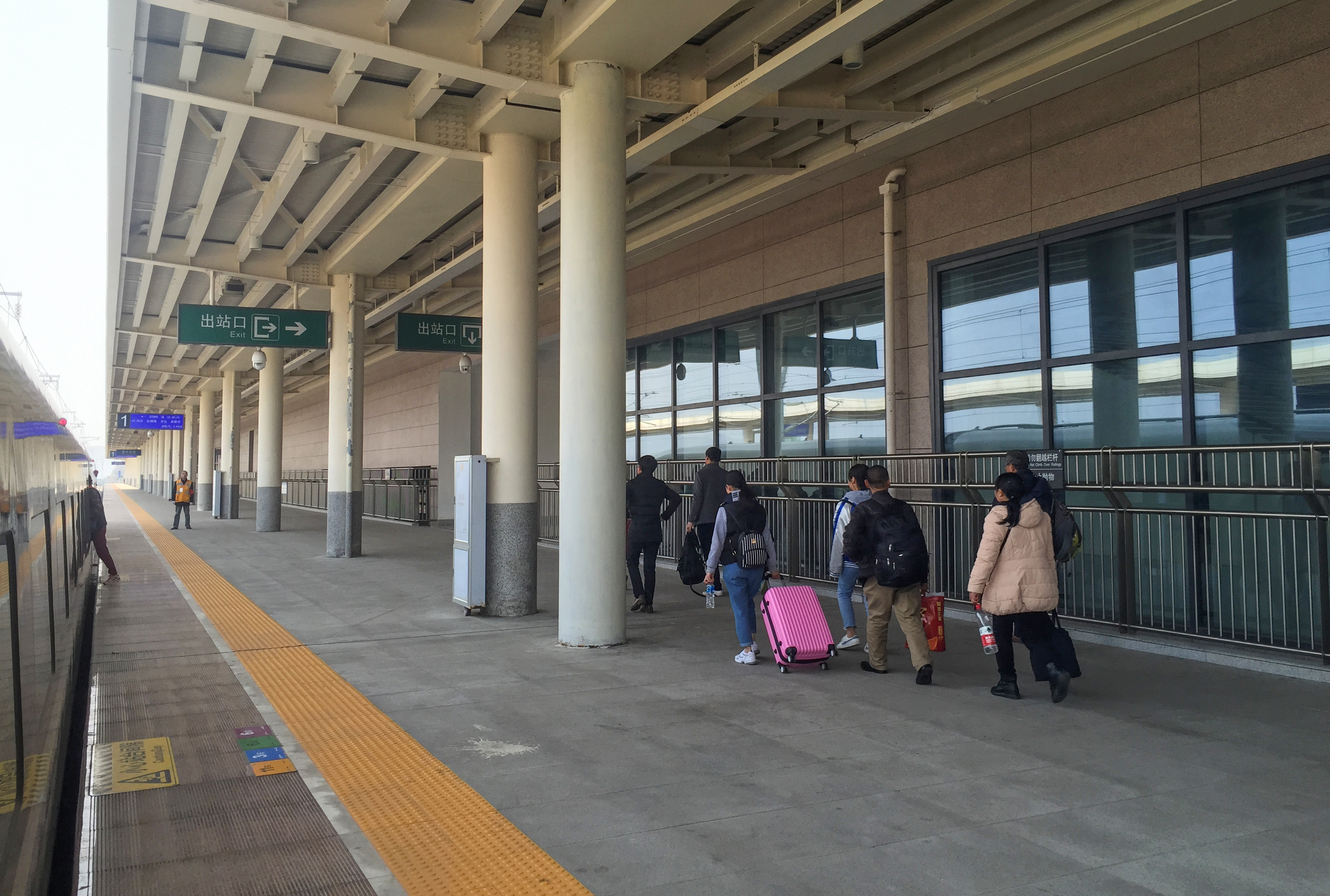 Taken during the stopover of G2888.